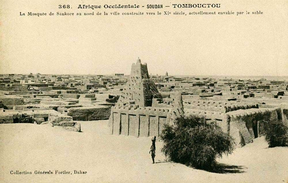 Postcard 368 by Edmond Fortier. View of the Sankoré Mosque in Timbuktu, Mali.